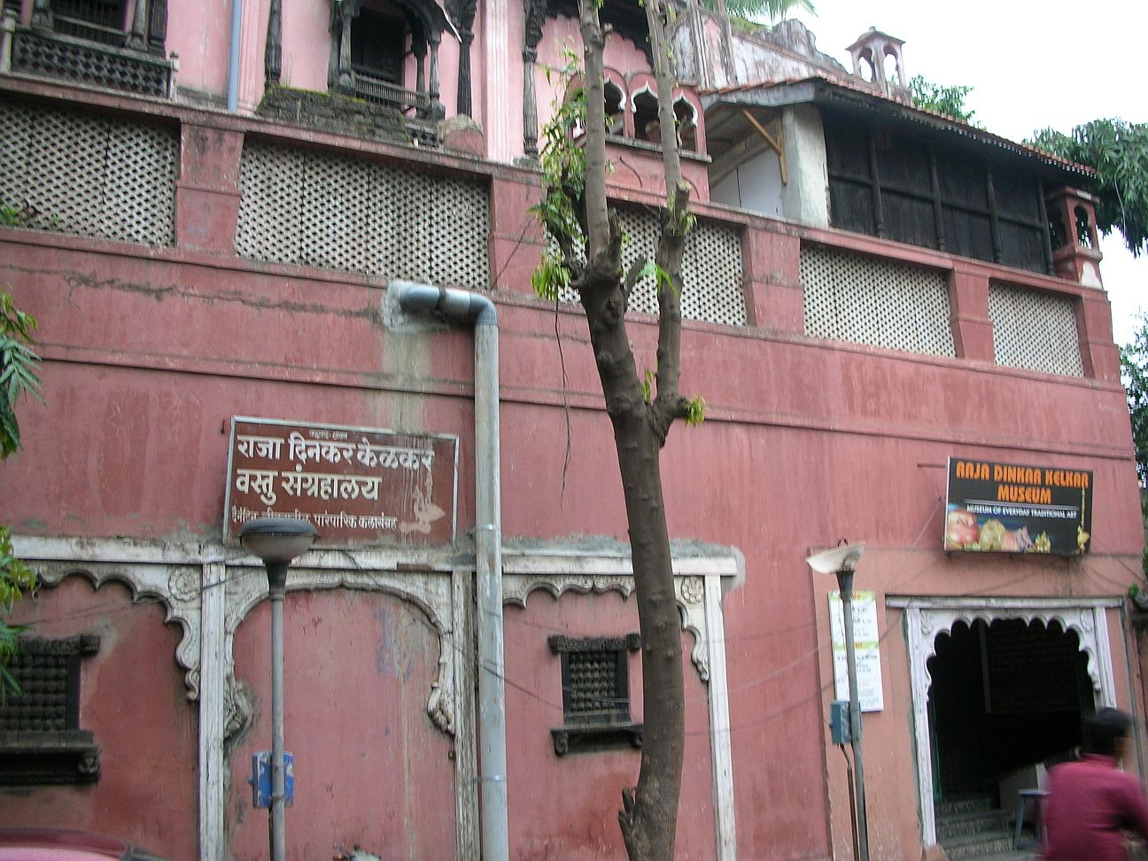 Raja Dinkar Kelkar Museum, Pune, Maharashtra, India.